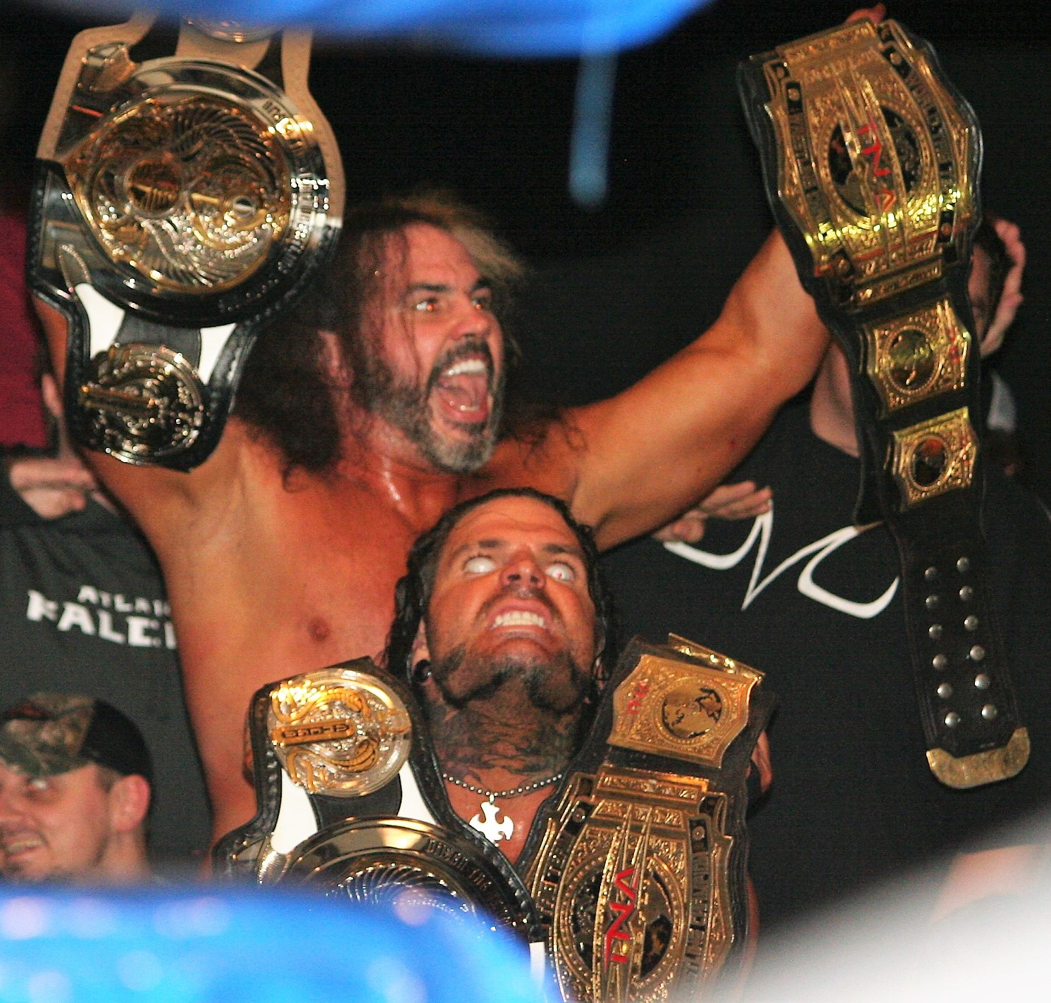 This image shows professional wrestlers Matt Hardy (top) and Jeff Hardy (bottom) as the Broken Matt and Brother Nero characters at a Carolina Wrestling Federation (CWF) Mid-Atlantic independent show on January 29, 2017. They are posing with title belts they held at the time, the TNA World Tag Team Championship (left) and the OMEGA Tag Team Championship (right) on January 29, 2017.